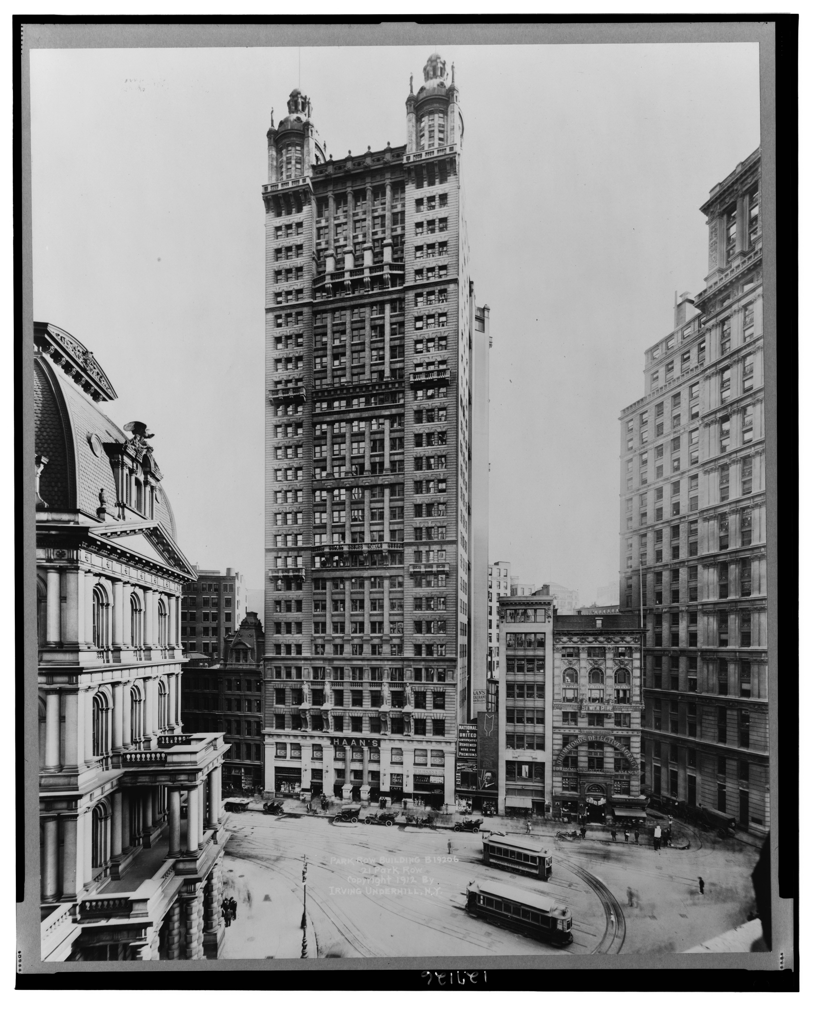 View of the Park Row Building, Manhattan, New York City, in 1912, showing automobiles parked on street and trolleys. Post Office is on left.